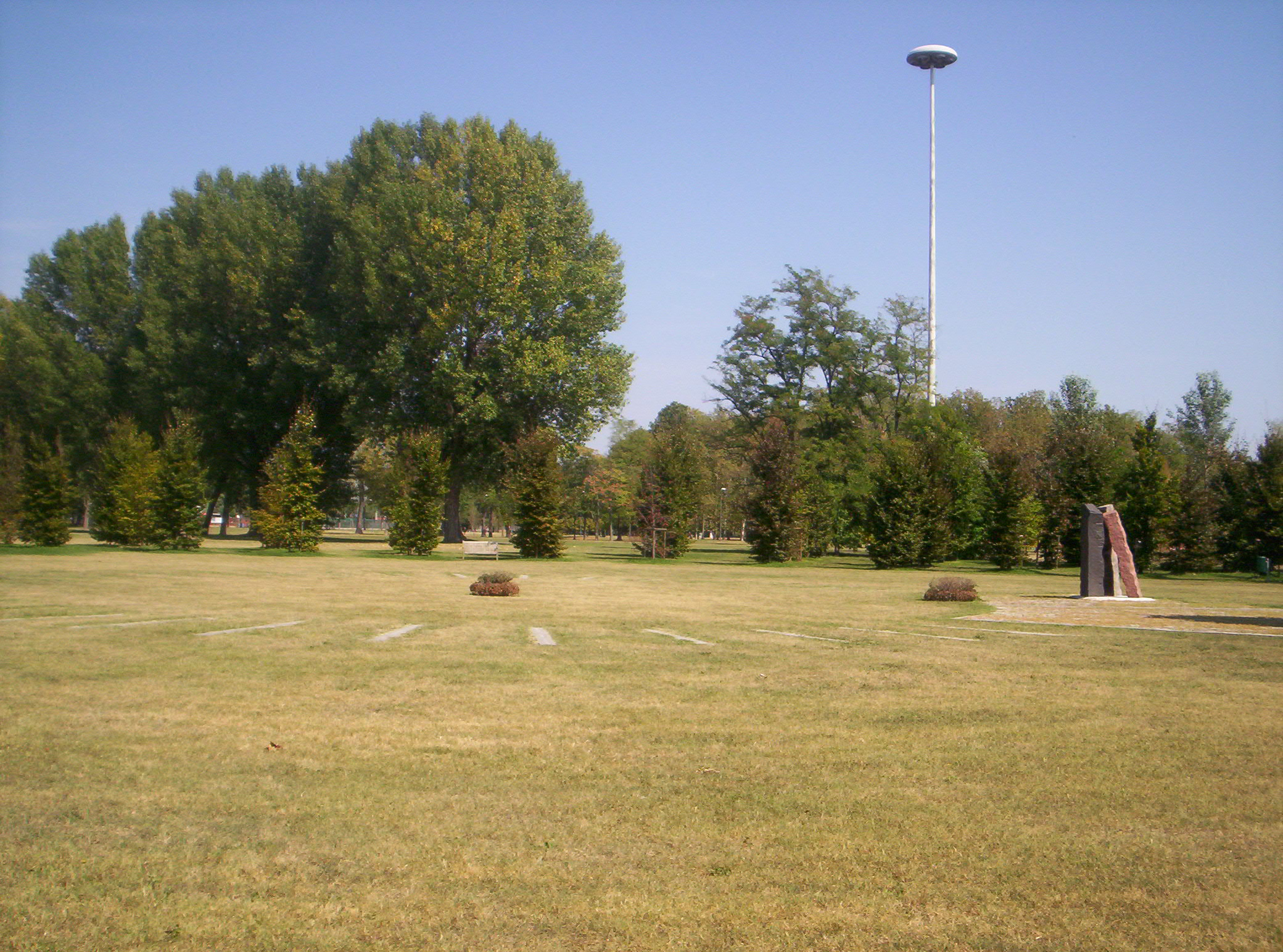 Bosco dei faggi, Milano-Linate, Italy.